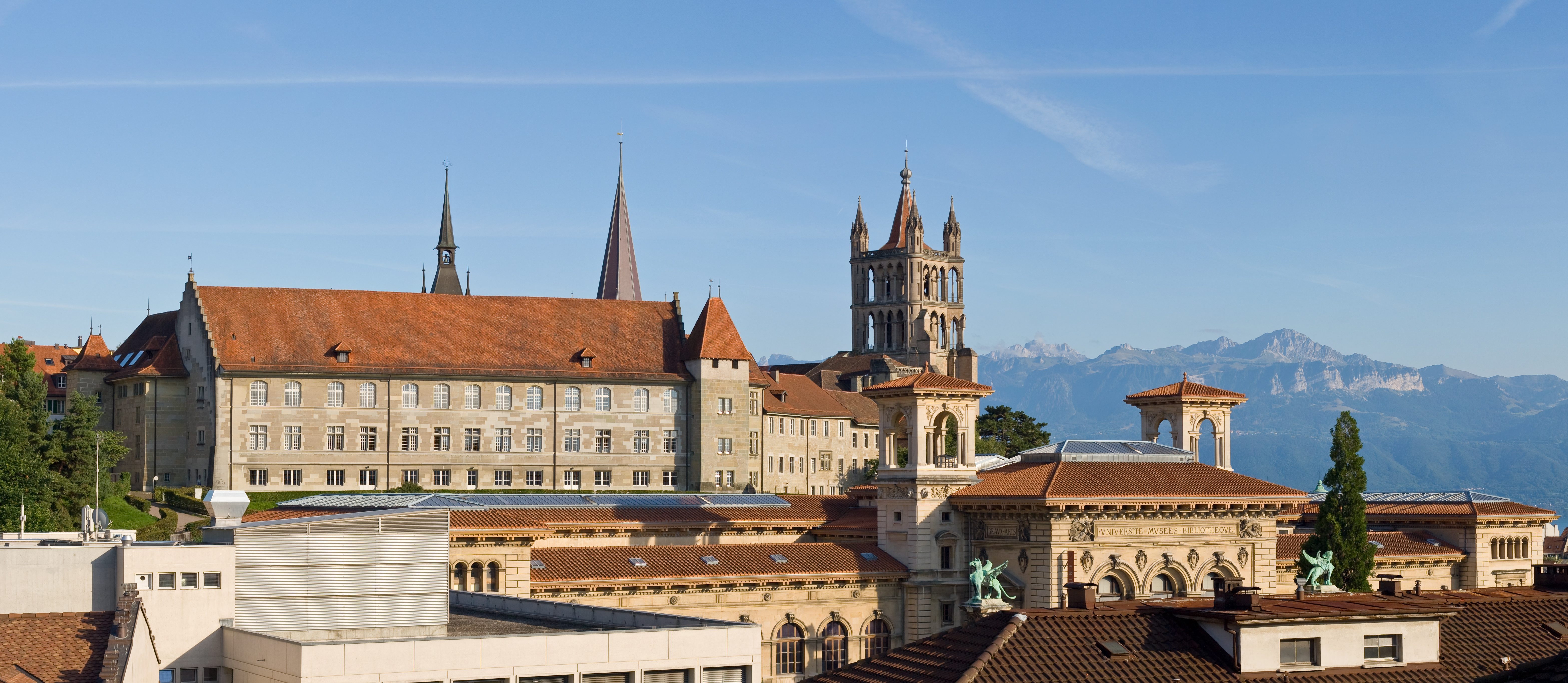 View over the roofs of Lausanne, Switzerland. Panorama stitched from four portrait format images using PTGUI [1].